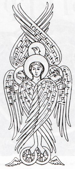 Tetramorph. Line image of mosaic in Vatopedi monastery.